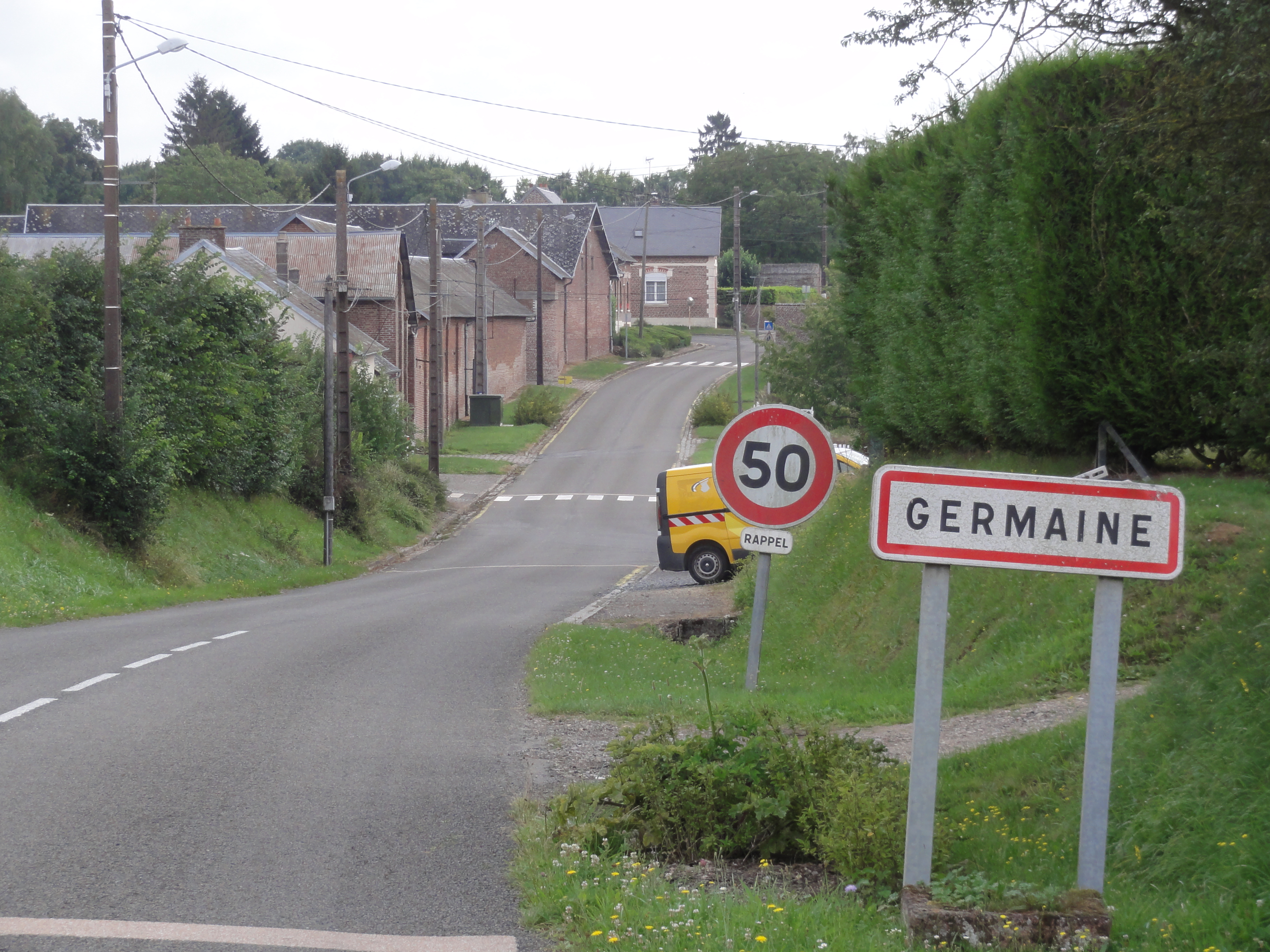 Germaine (Aisne) city limit sign